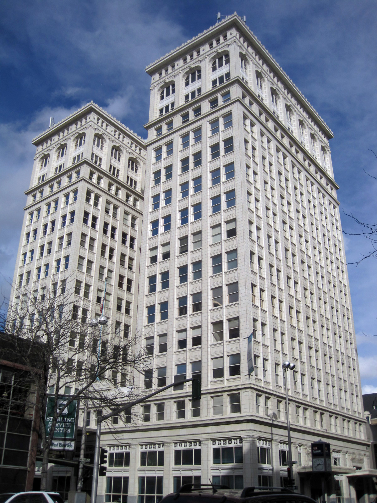 View of the Old Northwest Bank Building from Riverside Ave.